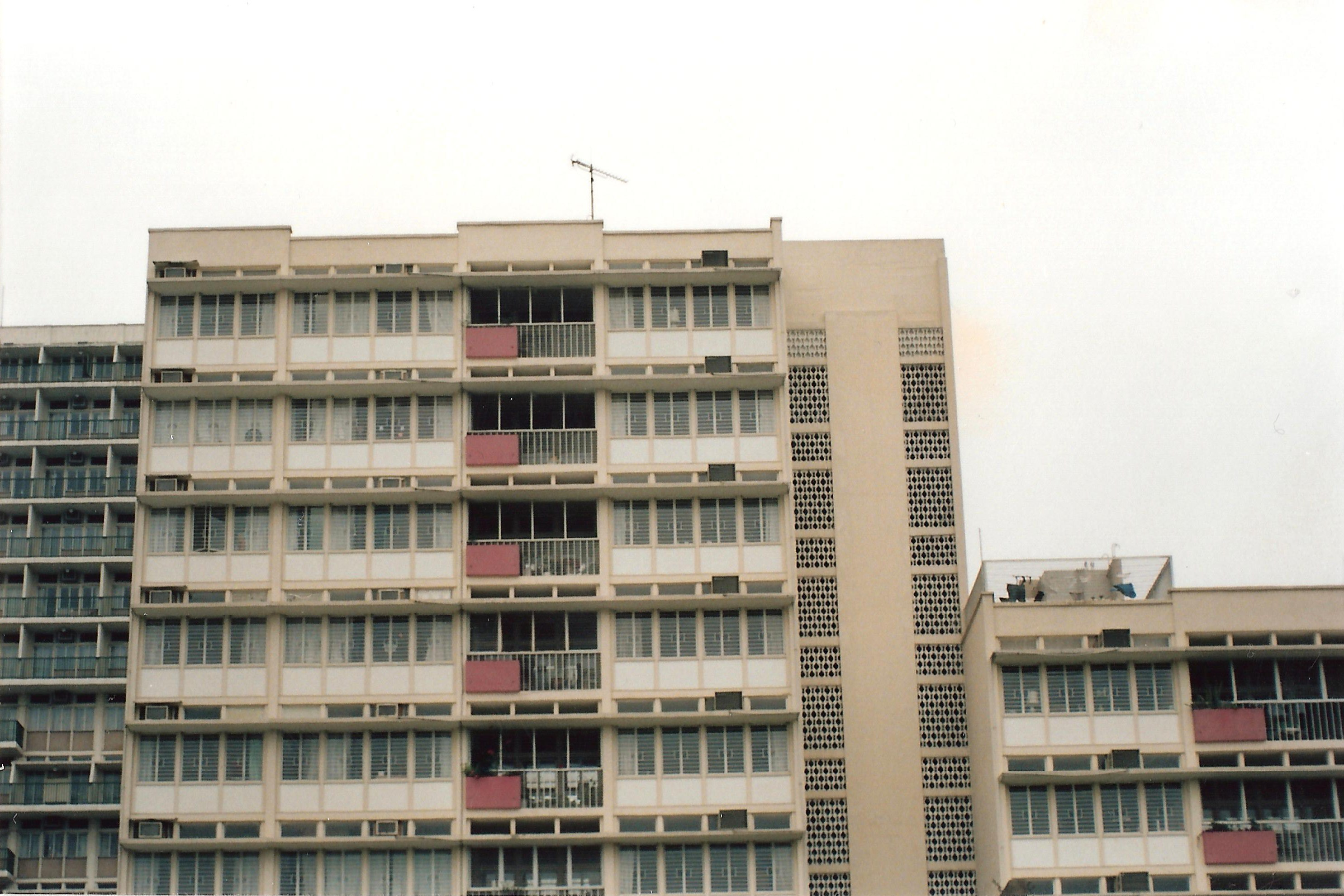 Taken at the BMH Hong Kong site, Wylie Road in 1994